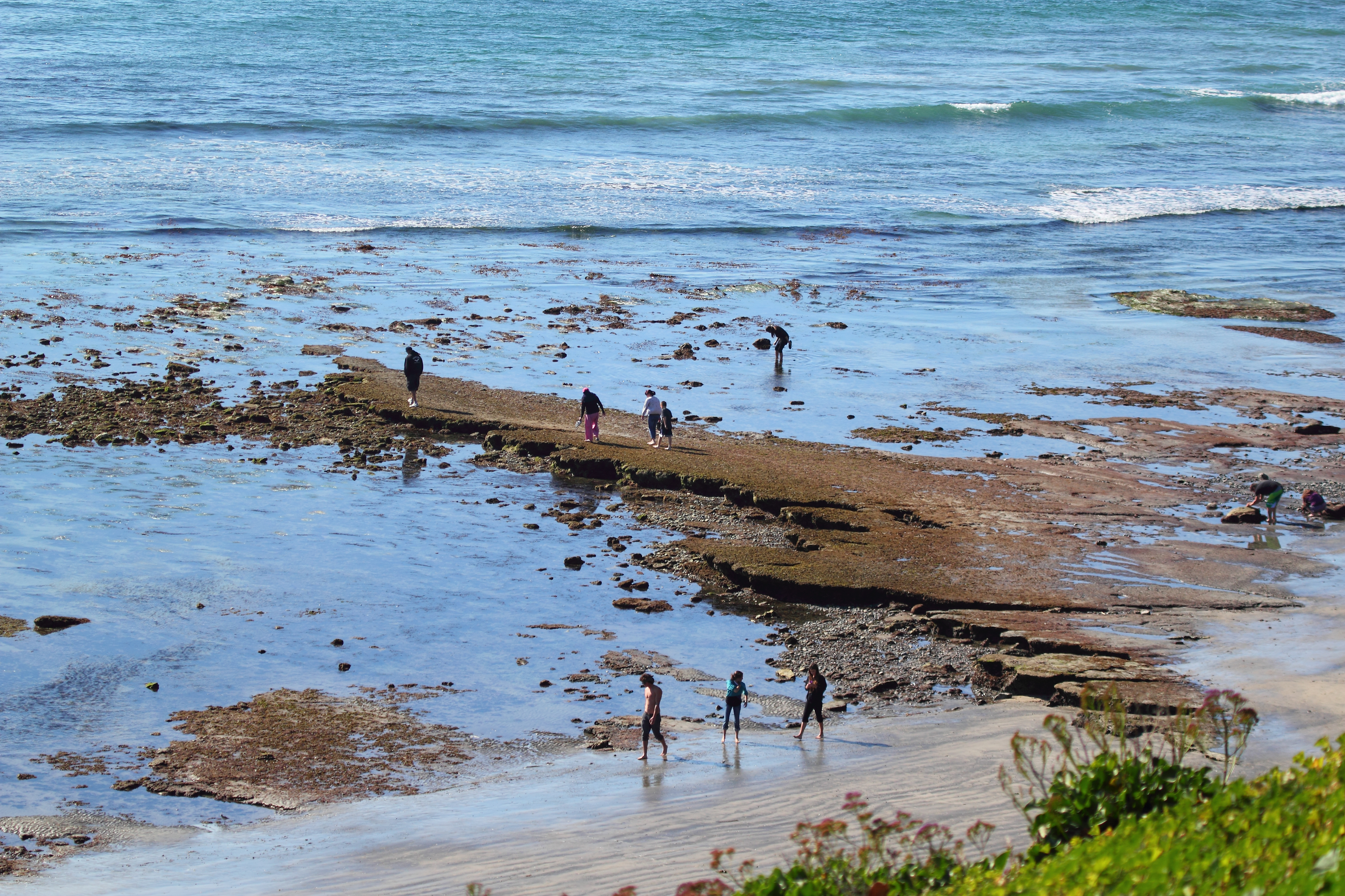 The partially-exposed reef at Swami's Beach during low tide, in Encinitas, San Diego County, California. Tourists explore the tide pools containing various wildlife.